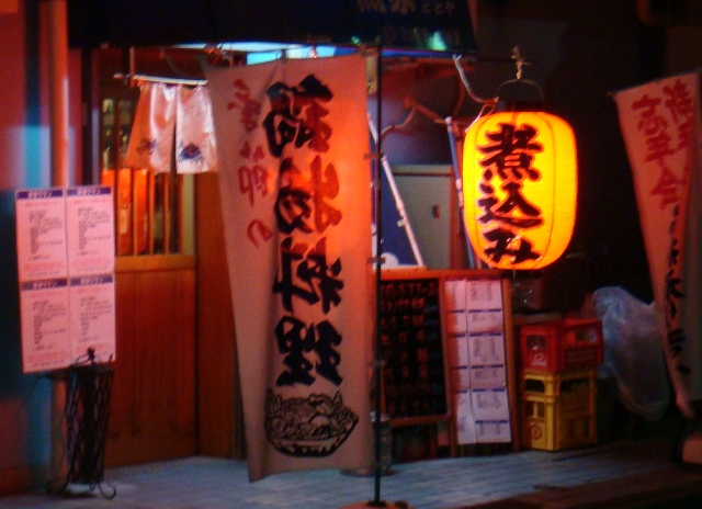 Izakaya, a traditional styled pub in Japan (uploaded mainly for ja traveler's pub...), Taken by (WT-shared) Shoestring in January, 2009 Location: Japan